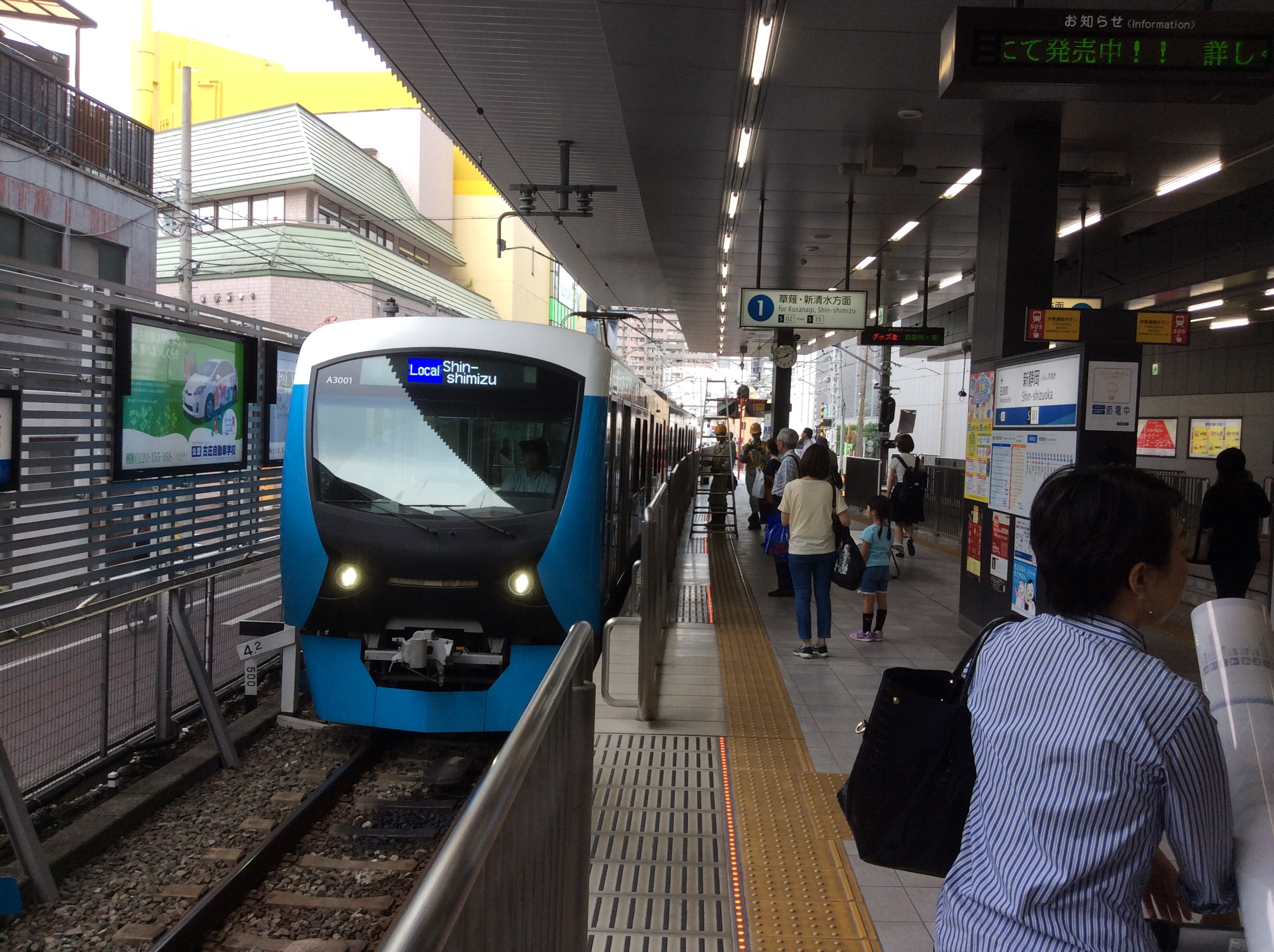 Shizuoka Railway A3000 series EMU set A3001 at Shin-Shizuoka Station in Shizuoka Prefecture, Japan